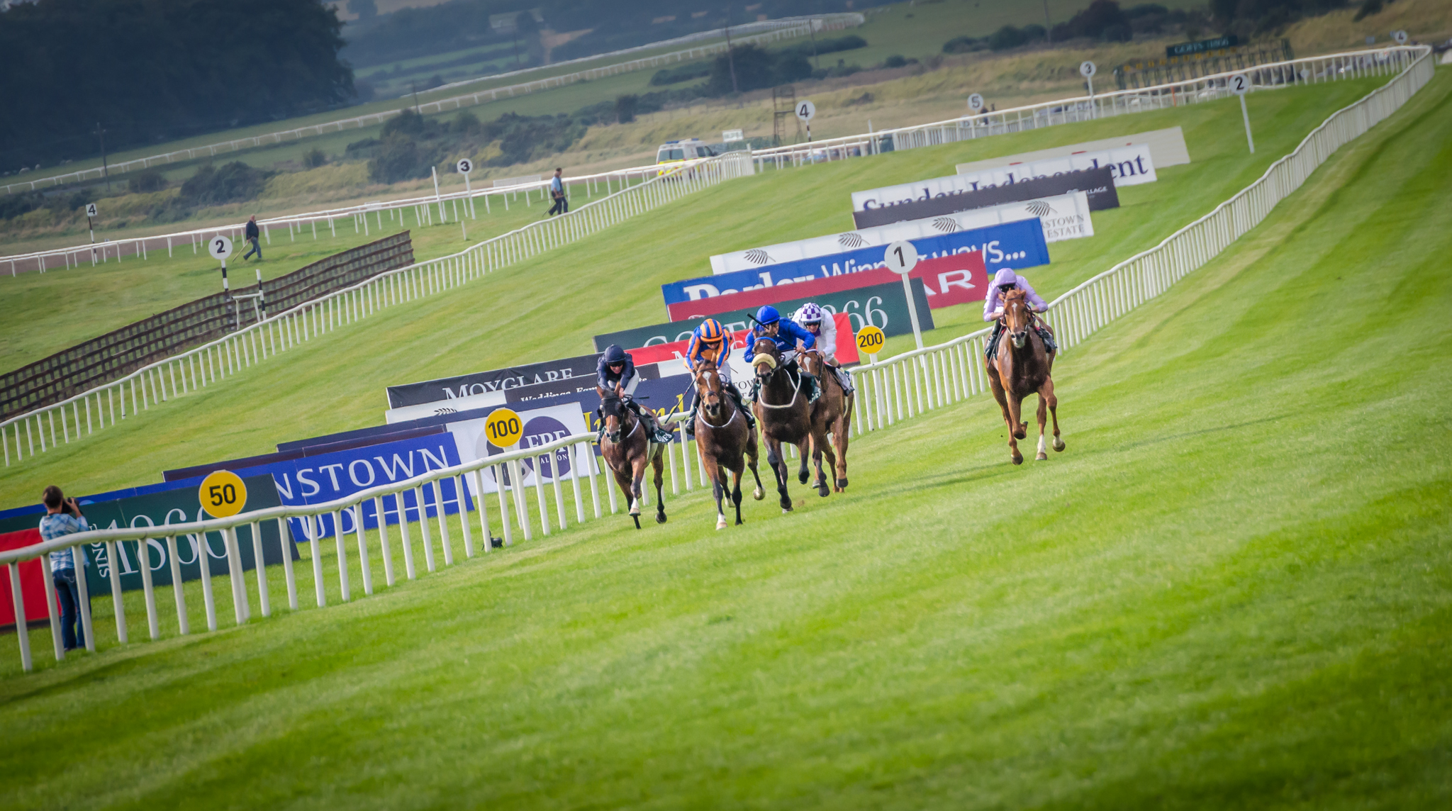 Finish to the National Stakes, Curragh